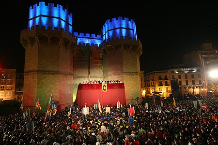 Crida Falles